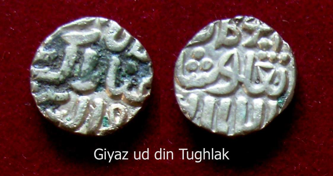 coin of Giyaz ud din Tughlak from my cabinet